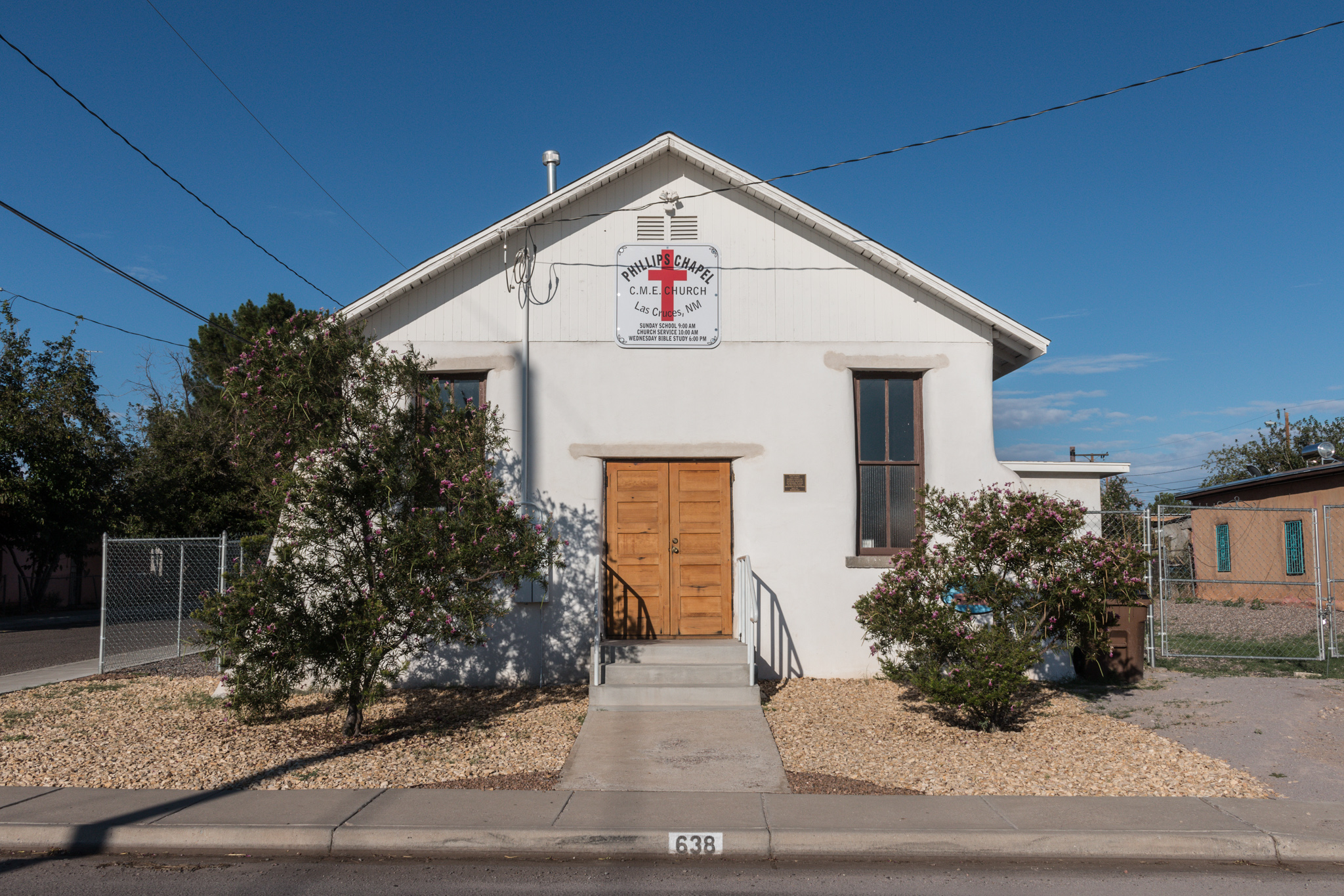 This is a view of the front of the Phillips Chapel CME church in Las Cruce, NM, USA, after the restoration that started in 2010.